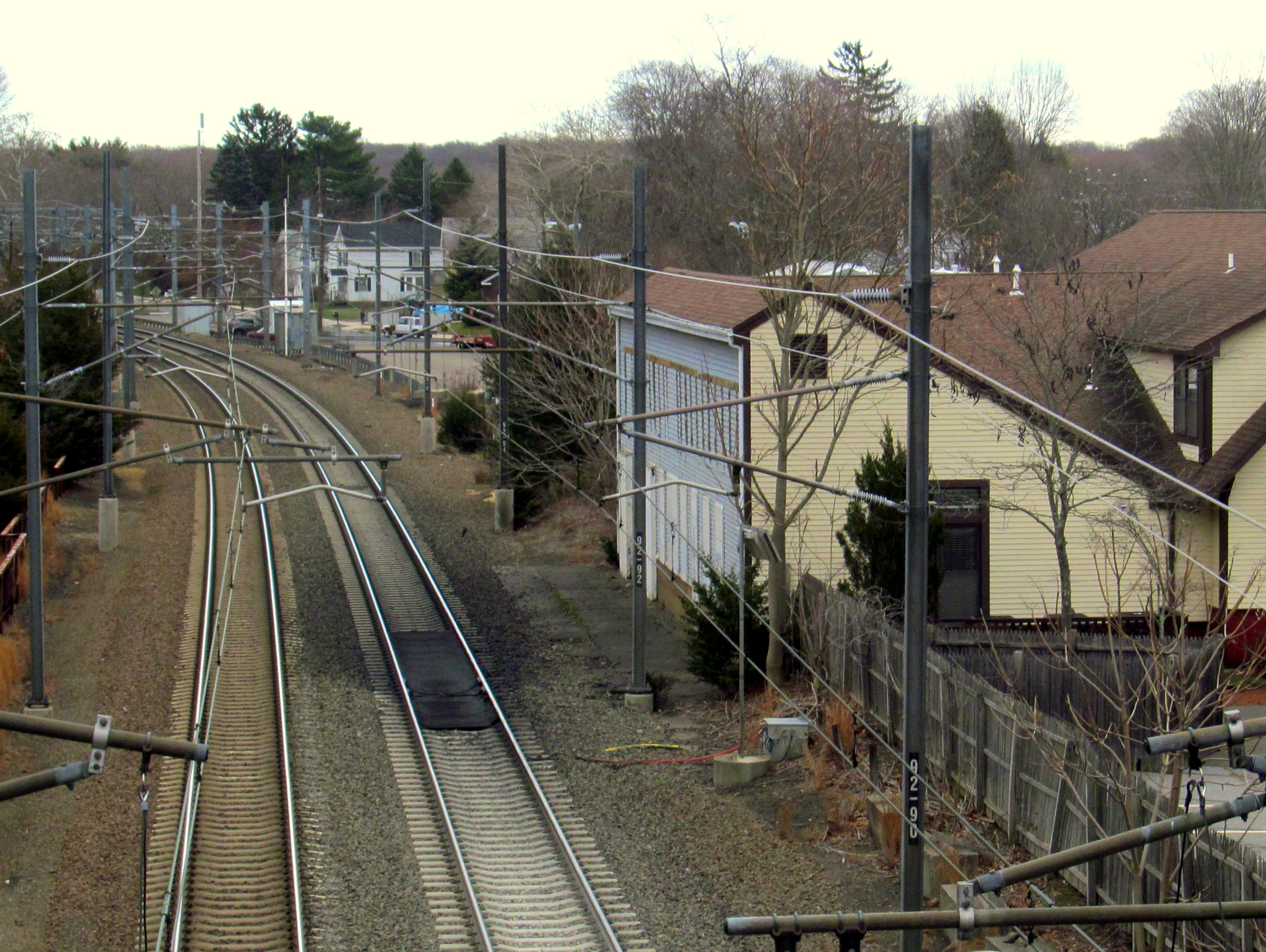 The old Madison station in December 2015